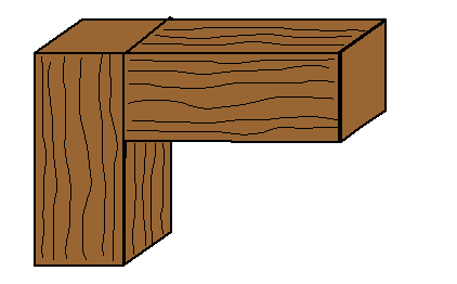 Created by Jim Thomas, 17 November, 2005